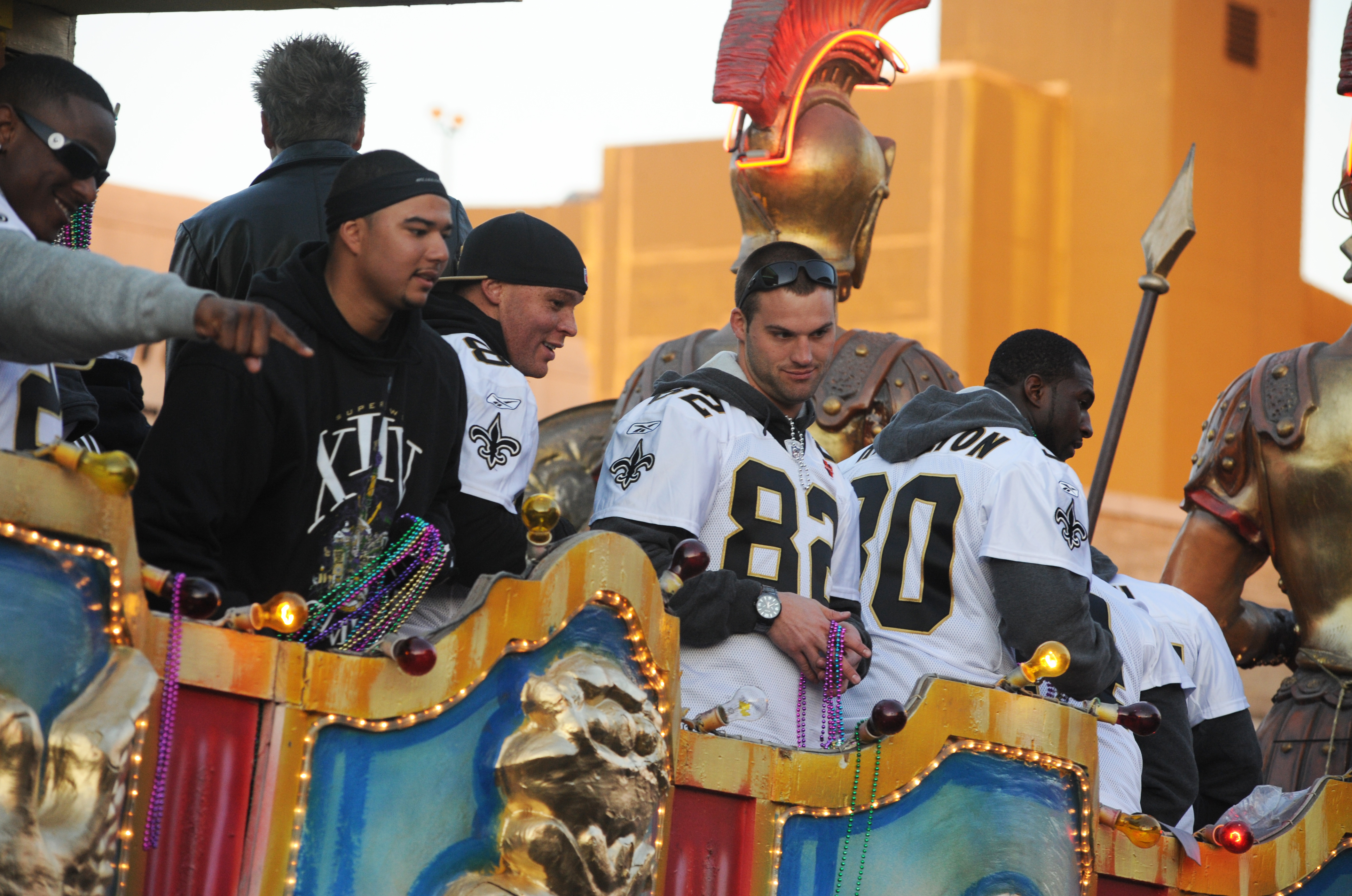 February 9, 2010